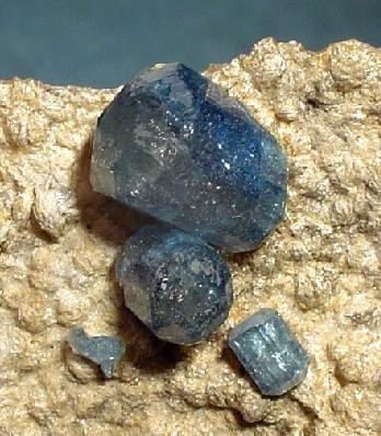 Apatite-(CaF) Locality: Paraíba, Northeast Region, Brazil (Locality at ) Size: 6.4 x 6.3 x 2.7 cm. Gorgeous, "Paraiba Blue" apatite crystals are aesthetically scattered on the contrasting feldspar matrix plate from the one-time, small, 2003 find at Paraiba, Brazil. The gemmy and lustrous crystals reach 9 mm.